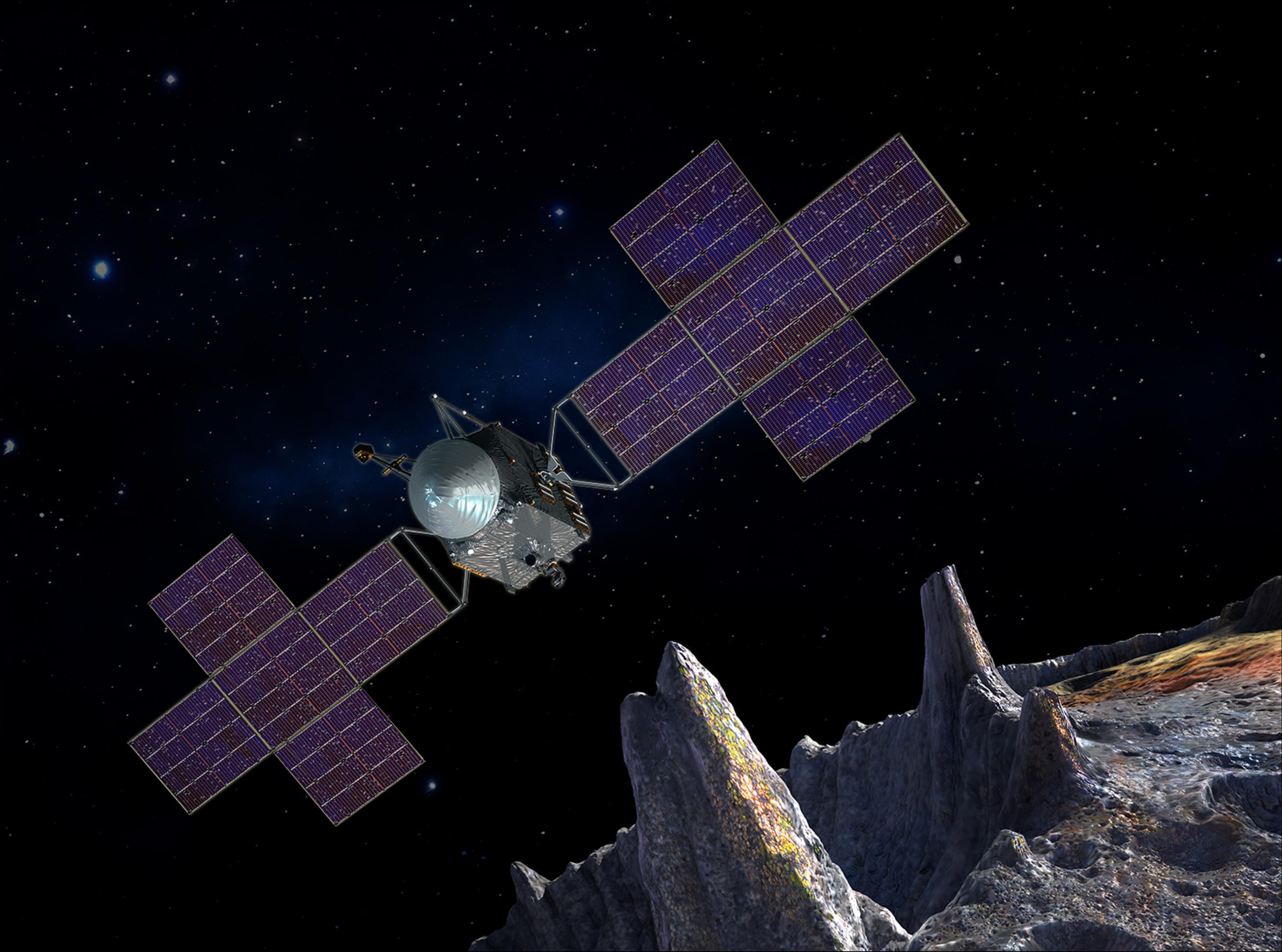 This artist's-concept illustration depicts the spacecraft of NASA's Psyche mission near the mission's target, the metal asteroid Psyche. The artwork was created in May 2017 to show the five-panel solar arrays planned for the spacecraft. The spacecraft's structure will include power and propulsion systems to travel to, and orbit, the asteroid. These systems will combine solar power with electric propulsion to carry the scientific instruments used to study the asteroid through space. The mission plans launch in 2022 and arrival at Psyche, between the orbits of Mars and Jupiter, in 2026. This selected asteroid is made almost entirely of nickel-iron metal. It offers evidence about violent collisions that created Earth and other terrestrial planets.